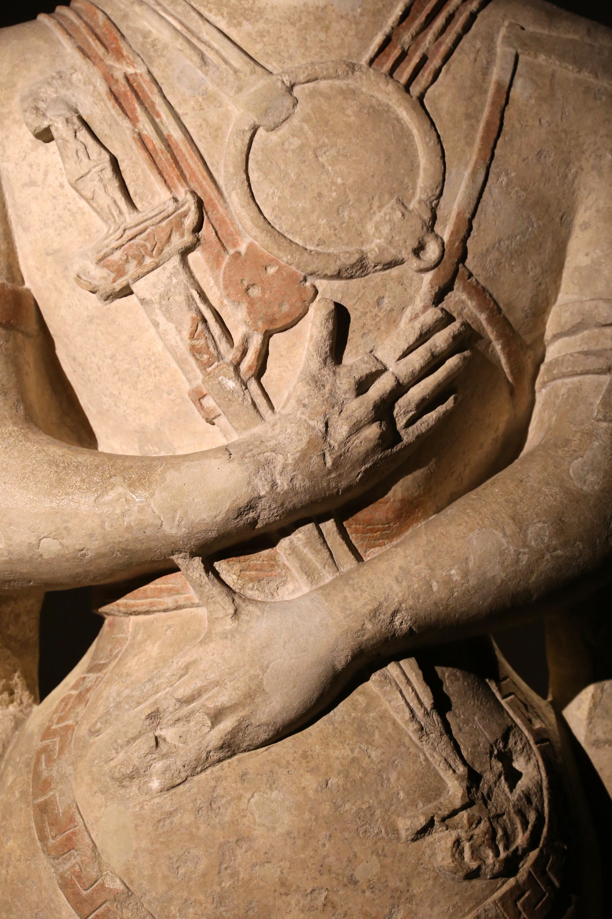 Guerriero di Capestrano